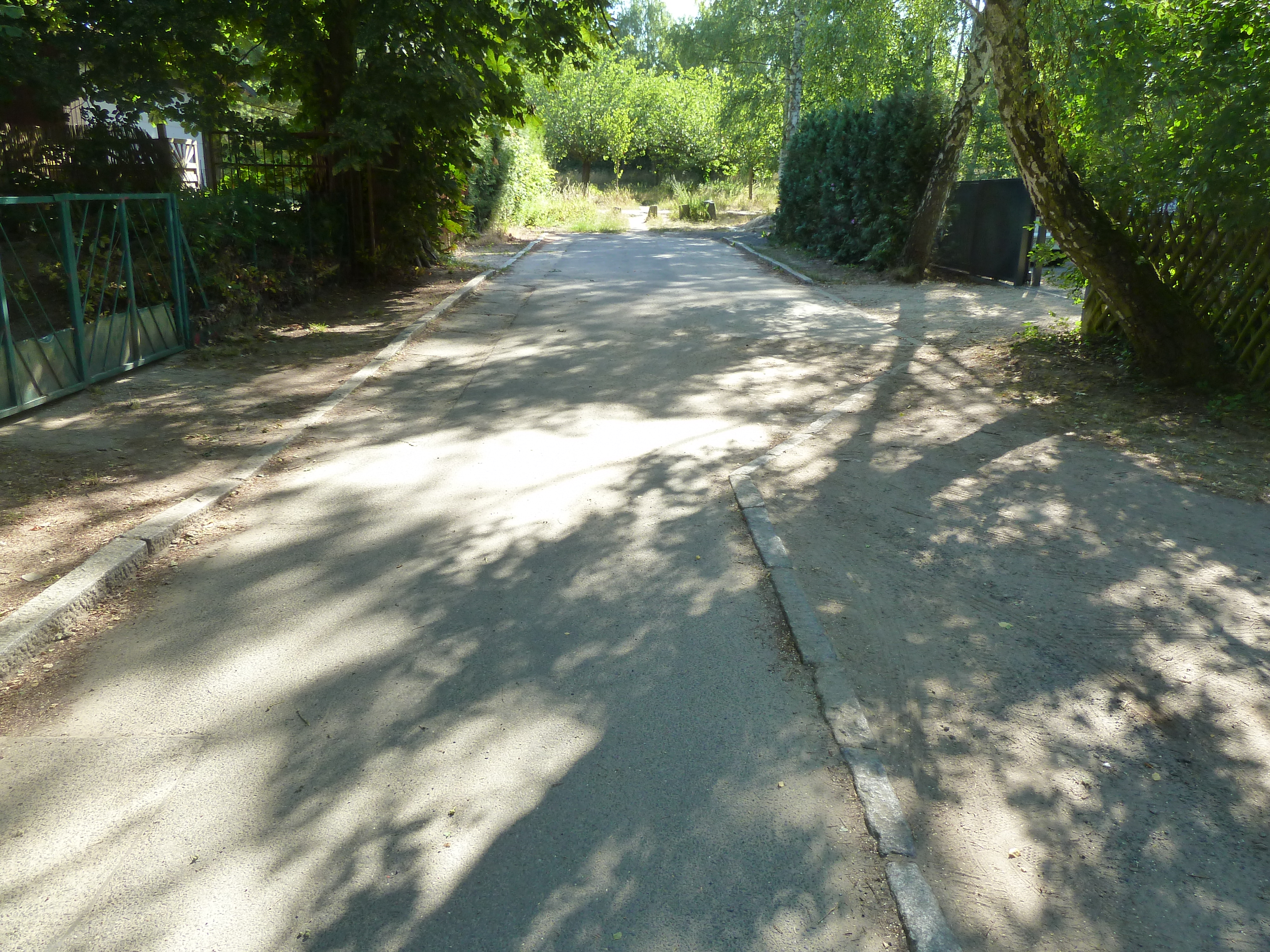 Standing on the border of Teltow and Lichterfelde-Süd, Berlin, on former GDR territory. Standing on Lessingstraße in Teltow, and facing east, looking at Lessingstraße, until where it ends, short of Lichterfelde-Süd. Lessingstraße is the street where Robert DeBrake was shot.